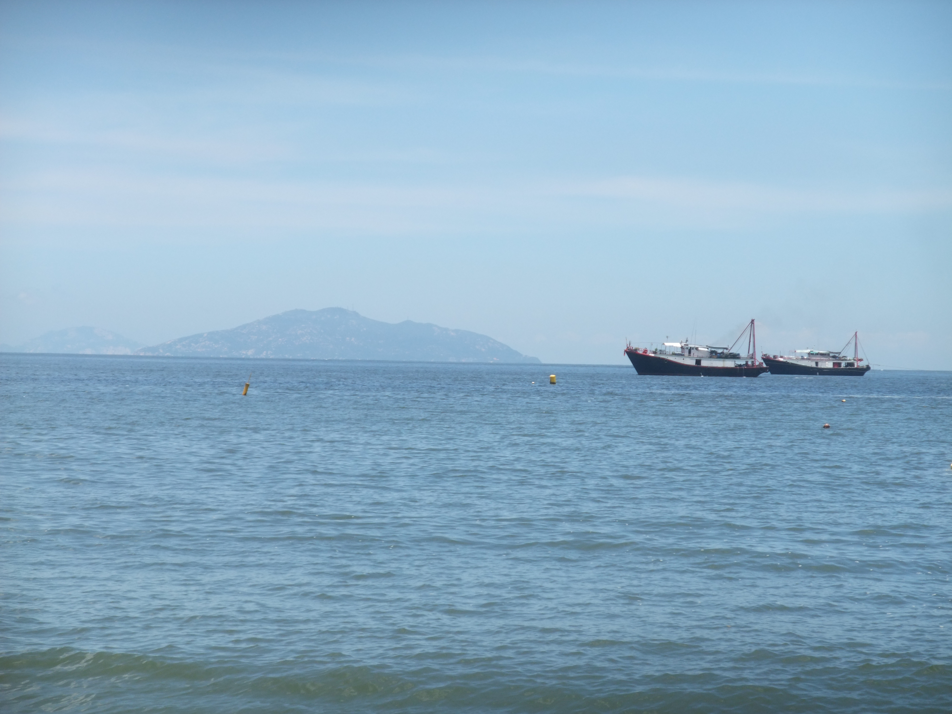 Photo of Wai Lingding Island